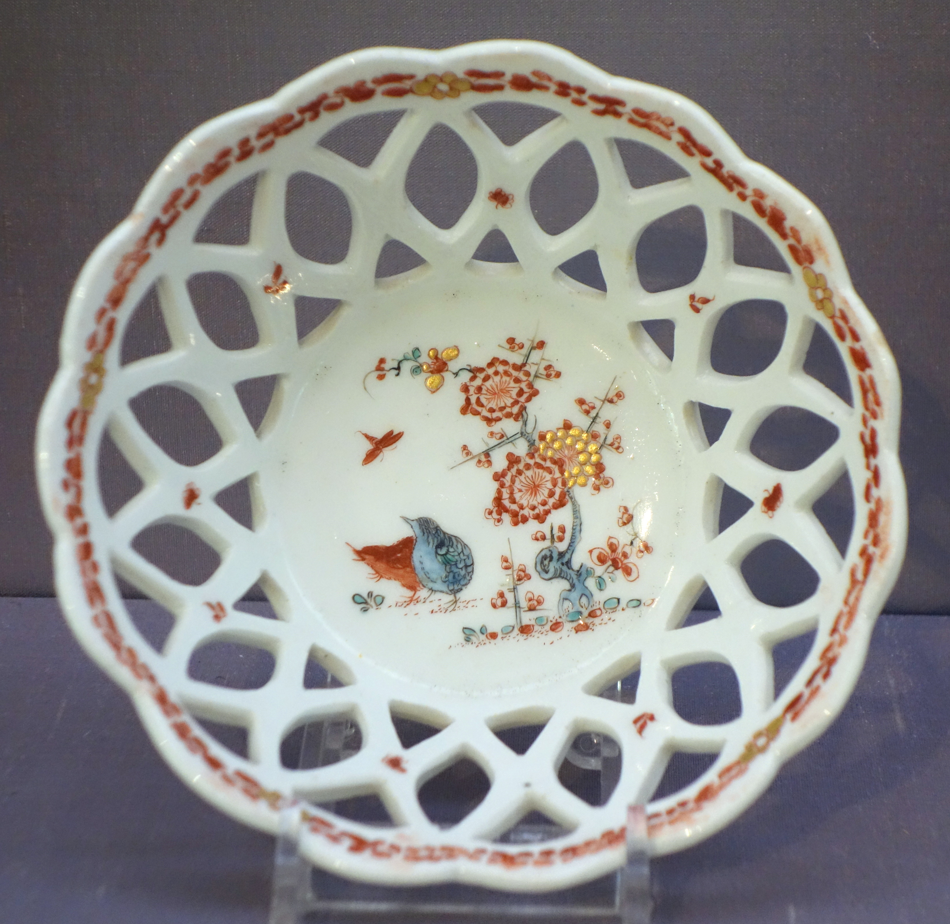 Exhibit in the California Palace of the Legion of Honor, San Francisco, California, USA. This work is old enough so that it is in the public domain.